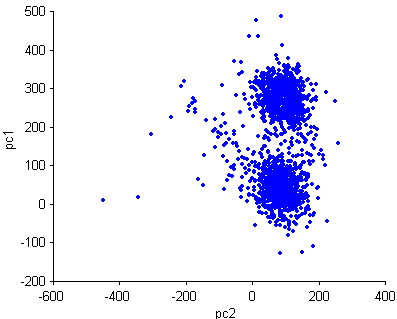 2D projections of the weight of the 1st (y-axis) and 2nd (x-axis) principle component of neuronal spikes shapes. Each cluster presumably collates spikes (see action potential) of one neuron. This type of projection is used in spike sorting.